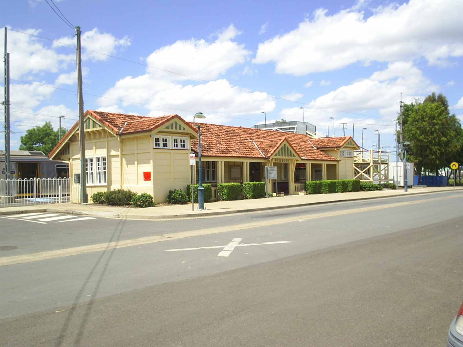 QR Rosewood Station, taken on 29/12/06 by Qld matt 12:10, 30 December 2006 (UTC)